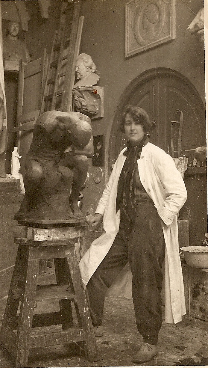 Photo of Cox (Cornélie Caroline van Asch van Wijck) in the Atelier of Toon Dupuis